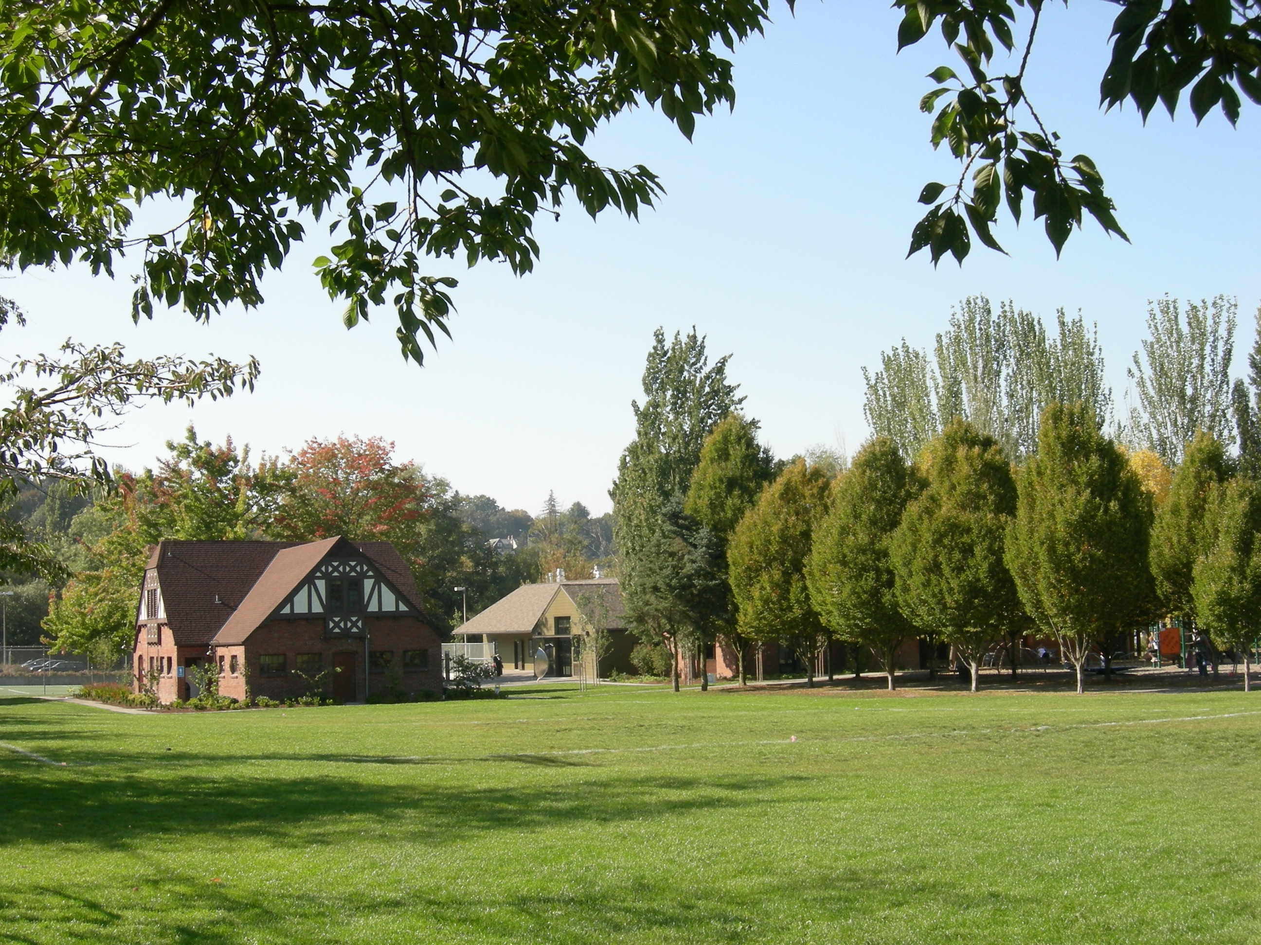 Montlake Community Center (old "Tudor" building and newer modern building) Seattle, Washington, USA. The old "Tudor" building has city landmark status.